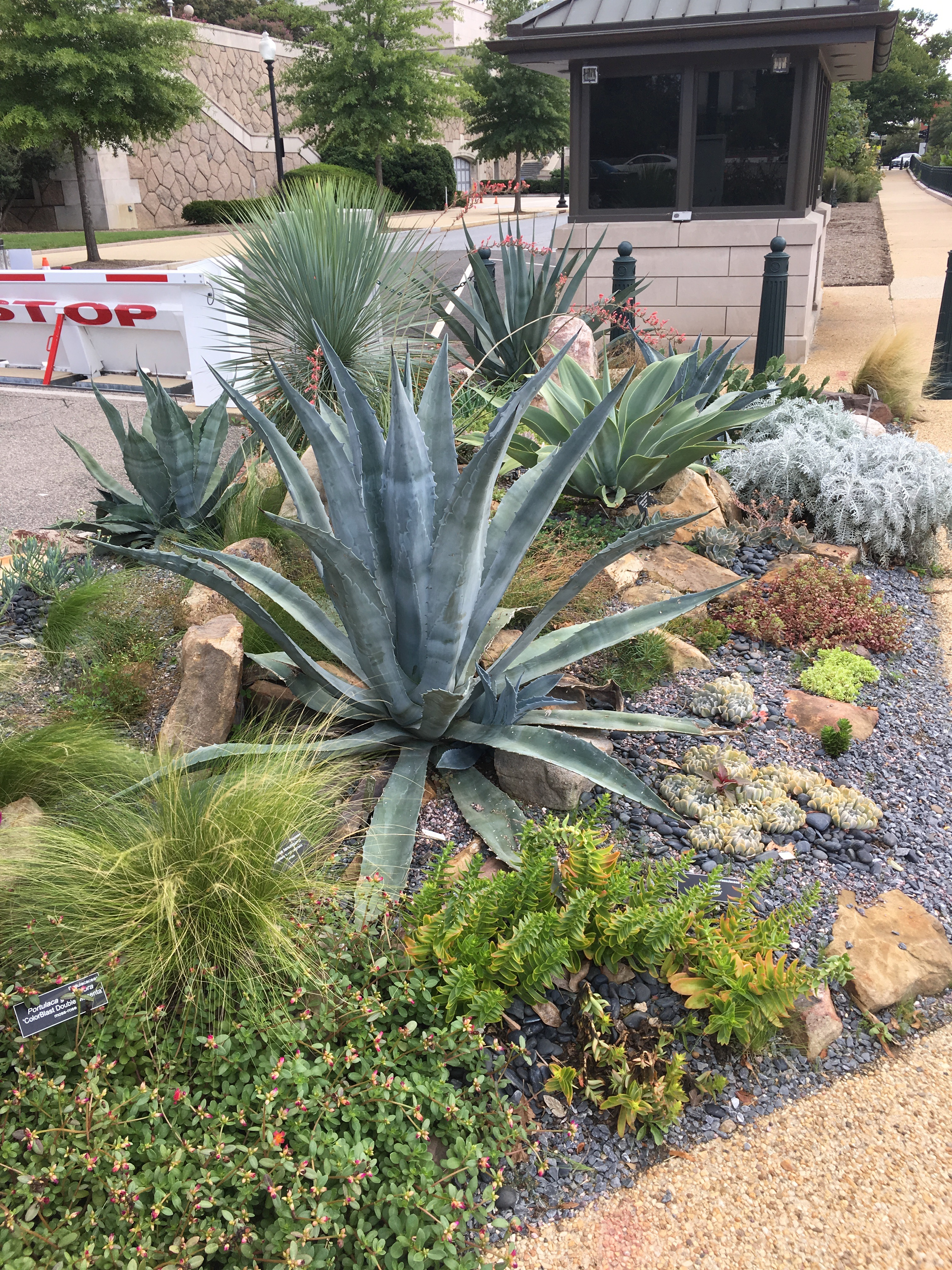 Xeriscaping outside the US Capital